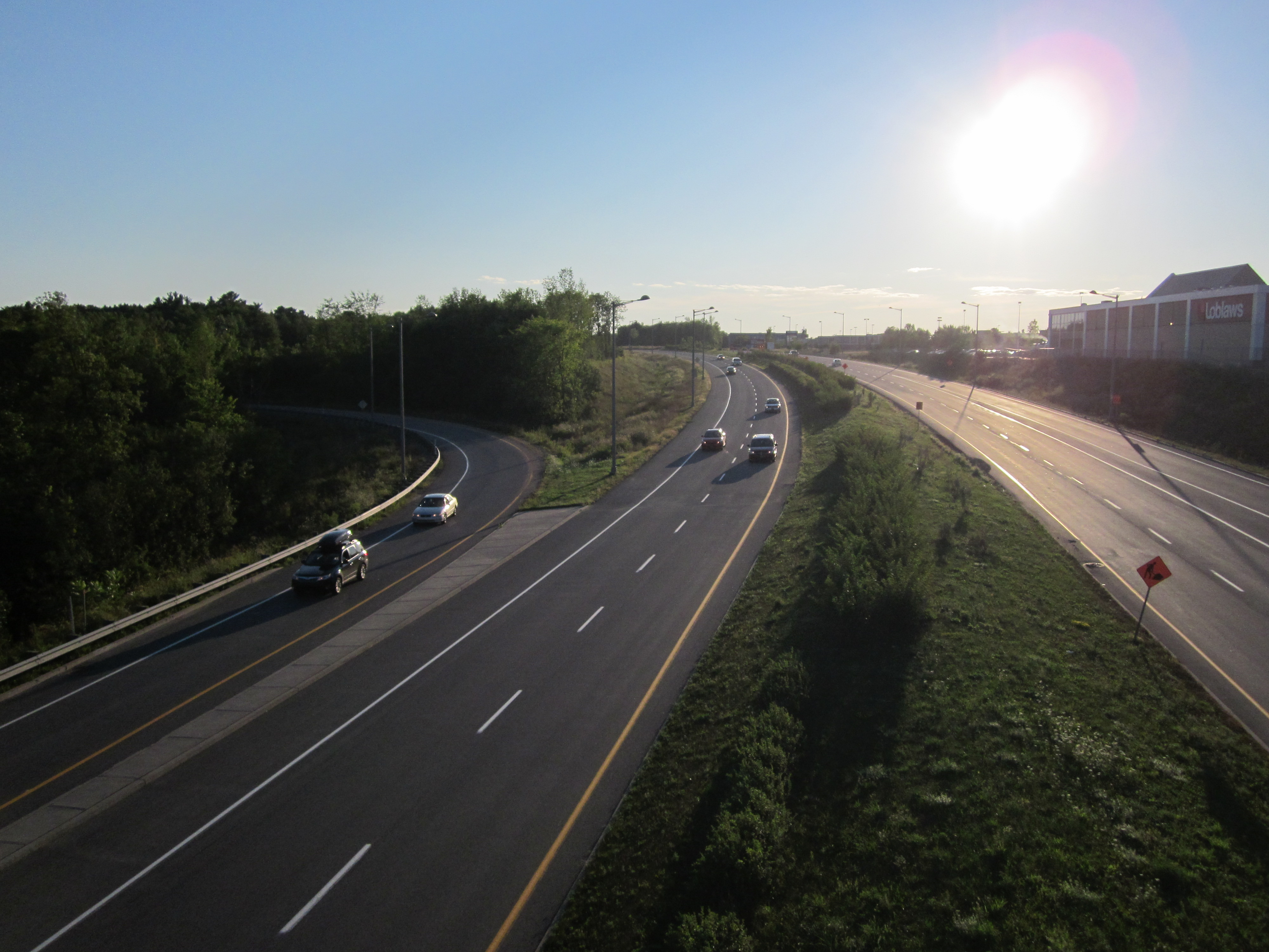 Highway 148 in Gatineau looking west from Saint-Raymond overpass. Corridor previously reserved for autoroute 50.